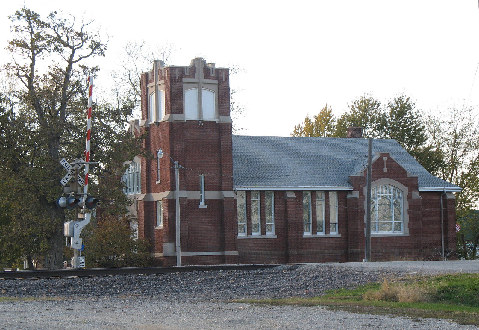 Immanuel's Evangelical Church in Papineau, Illinois, looking to the northwest